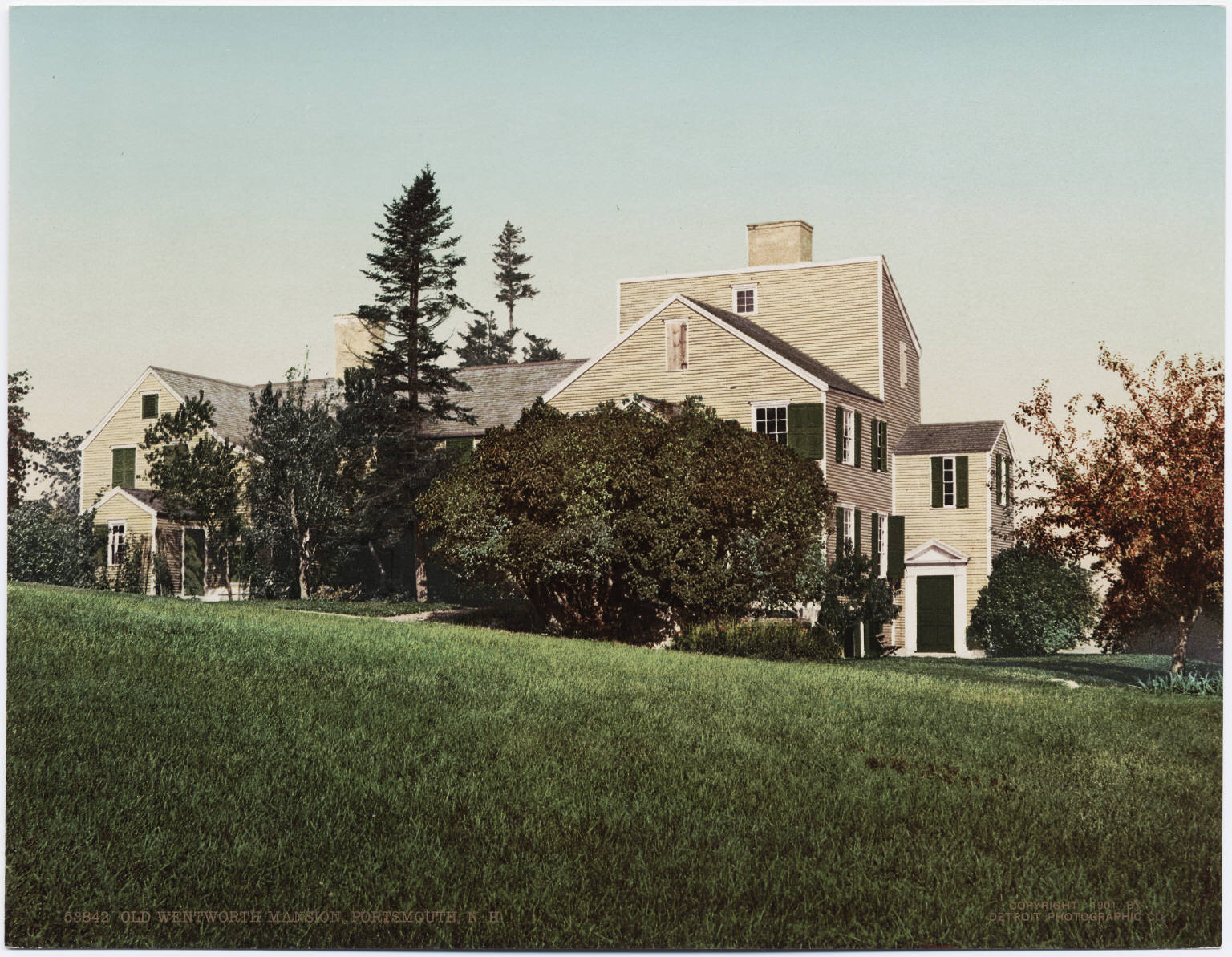 A photochrom postcard published by the Detroit Photographic Company. View of the Wentworth-Coolidge Mansion, Portsmouth, New Hampshire.